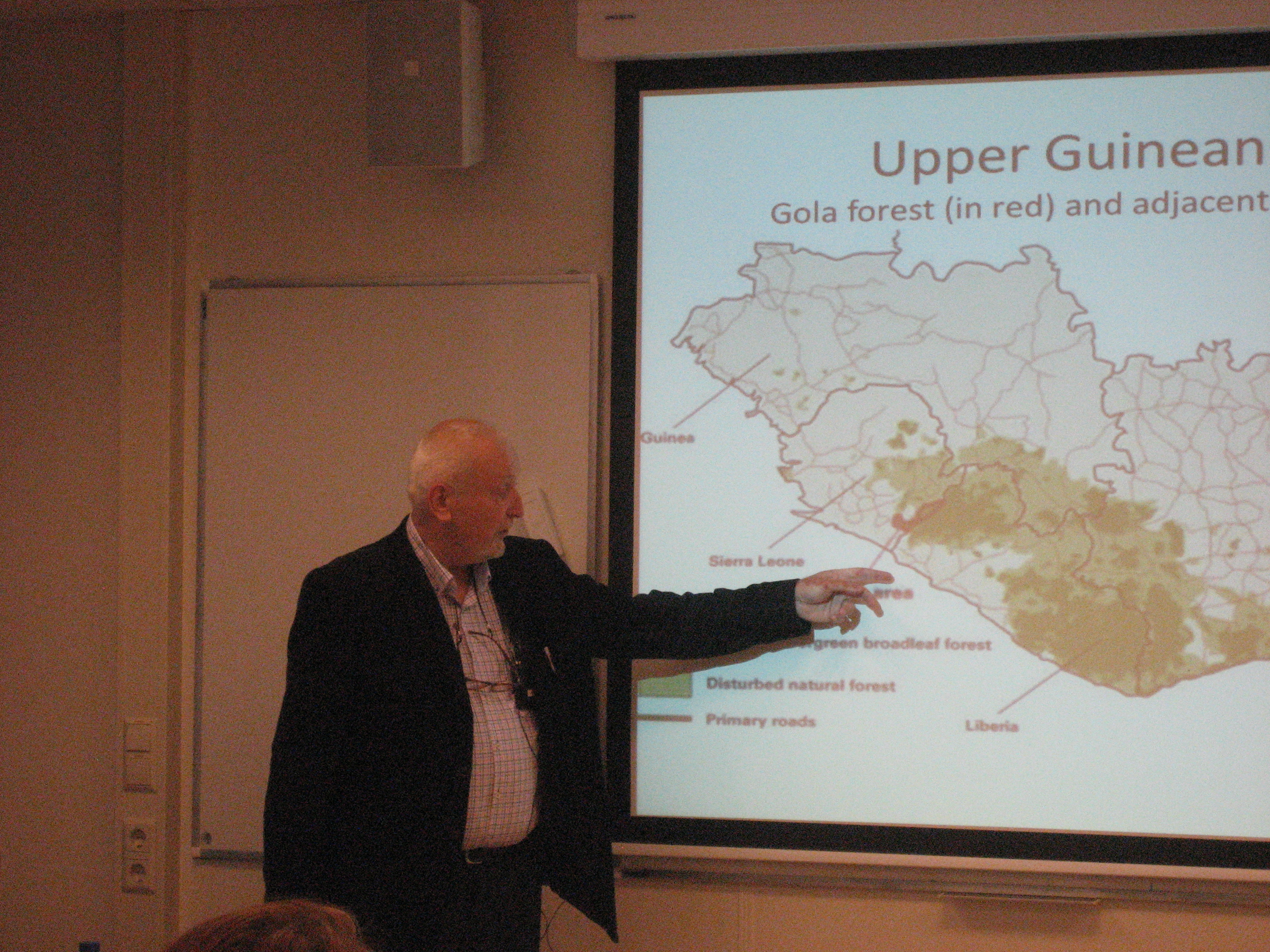 Paul Richards (*1945). Seminar Mende/Hofstra at African Studies Centre, Leiden (The Netherlands)